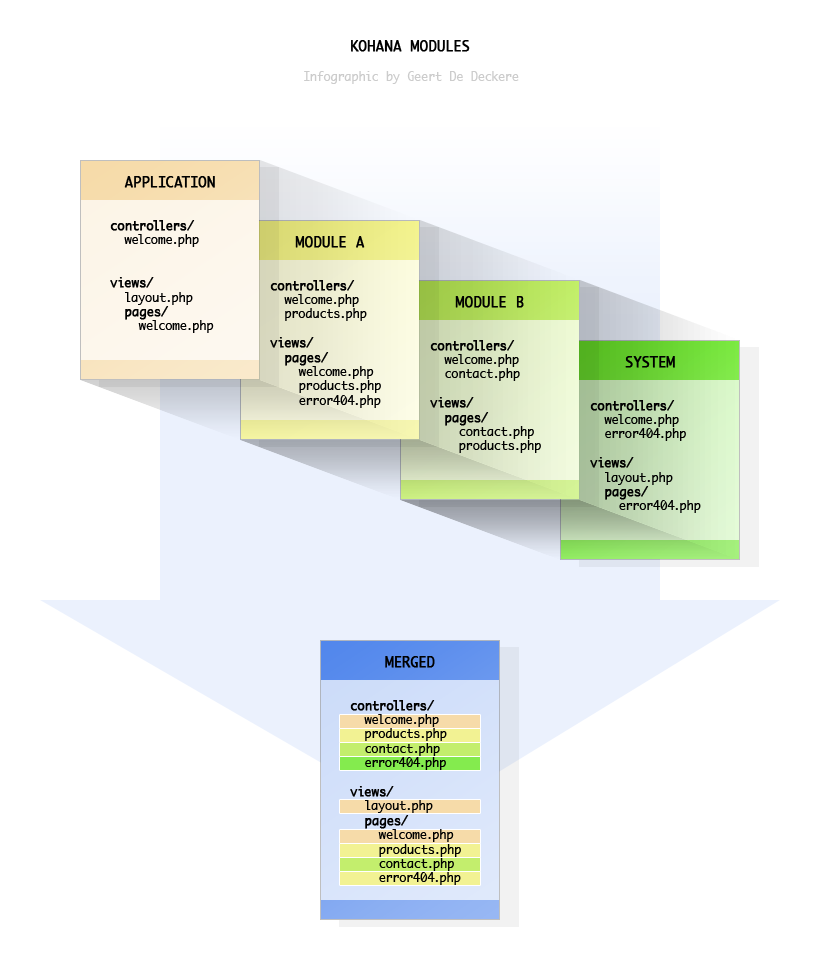 Visualization of the way Kohana loads modules cascadingly.